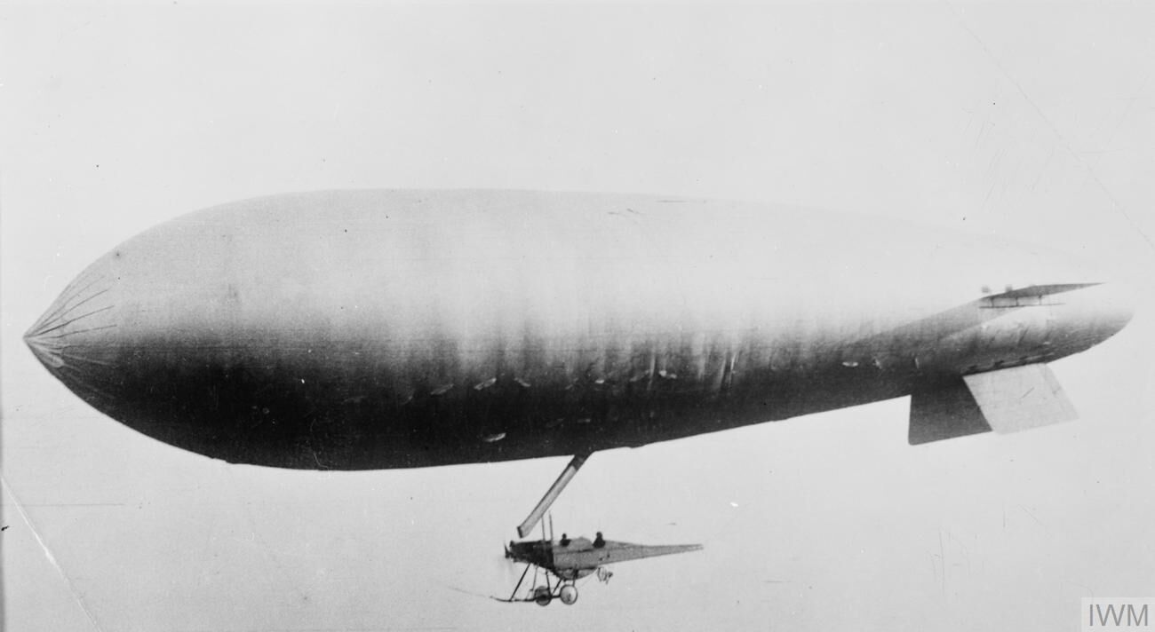 Aviation in Britain Before the First World War An SS (sea scout) class blimp flying. The gondola is a BE 2c with its wings and tail removed. Comment : this class was introduced in 1915.